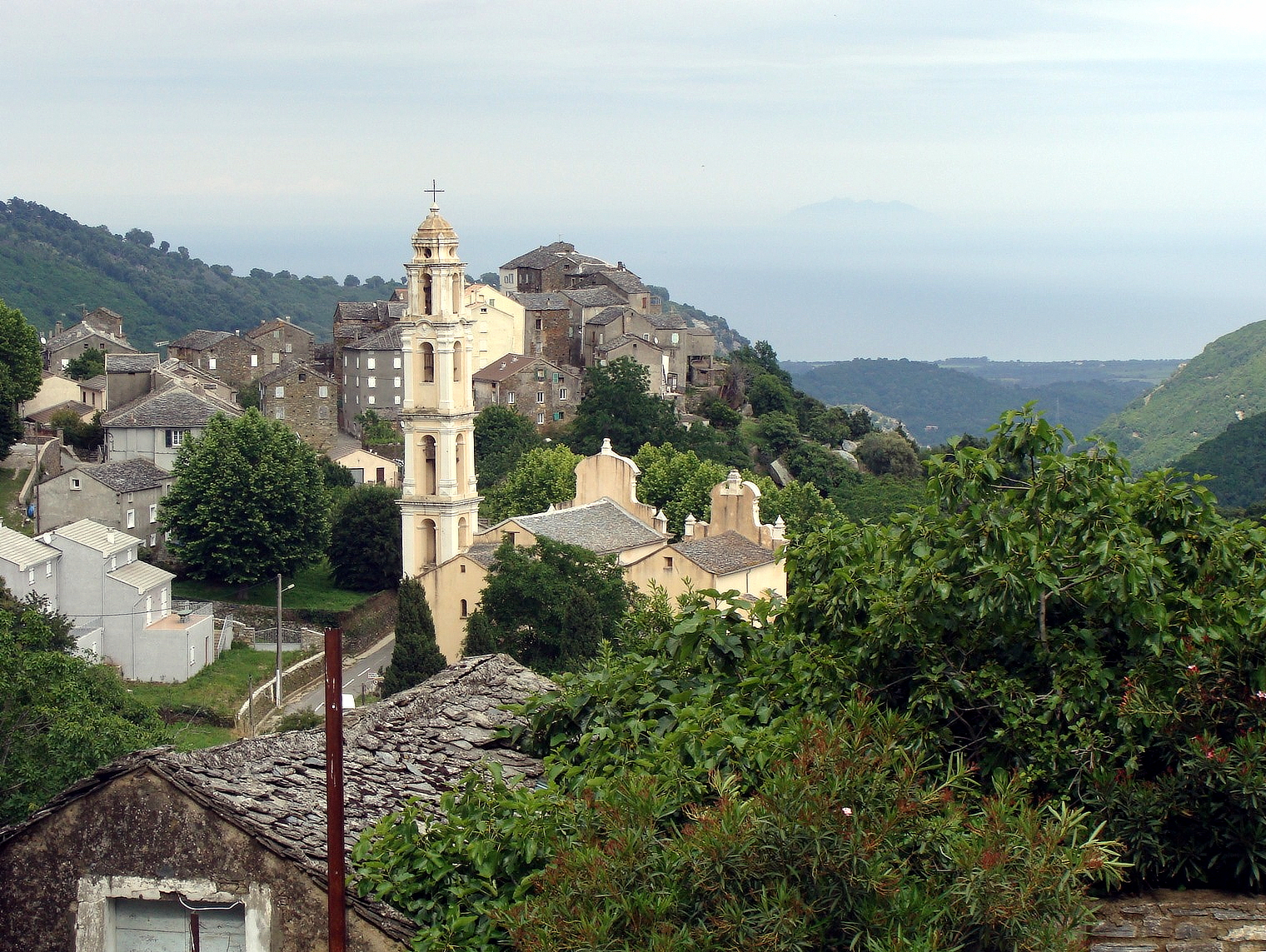 Pietra-di-Verde, a village in Haute-Corse